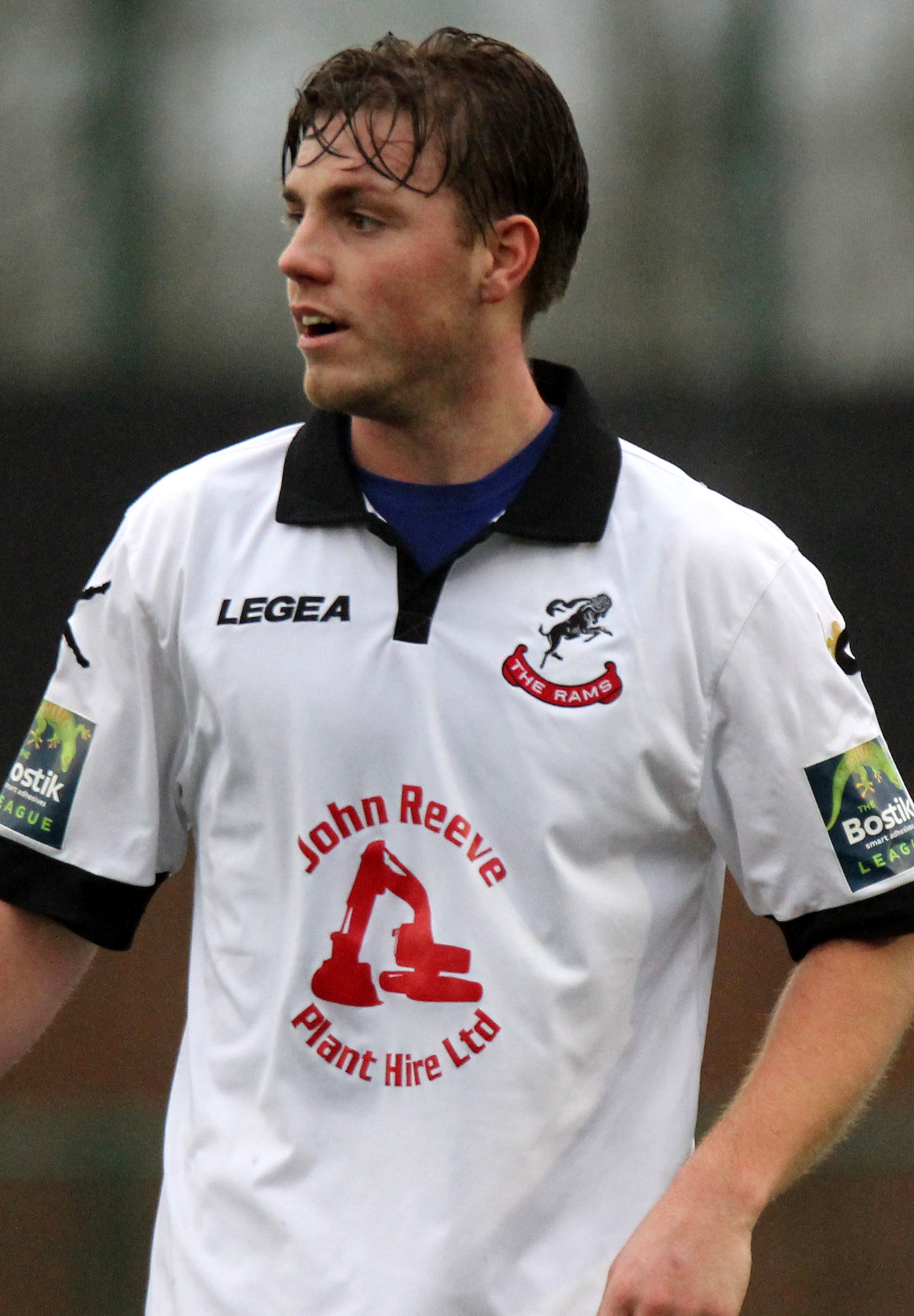 Aaron Millbank playing for Ramsgate in a 1–0 defeat to Walton Casuals on Saturday 20 January 2018.